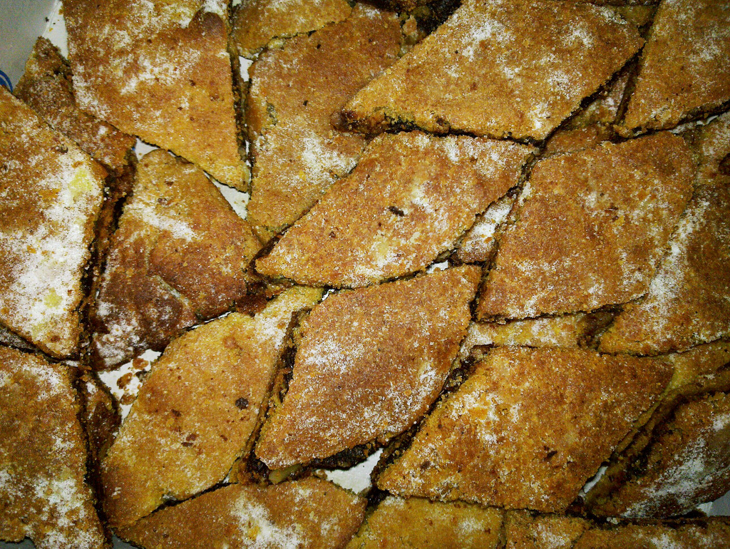 Komaj Sehen kind of Cookie in Kerman Province, Iran